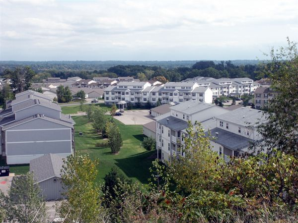 york